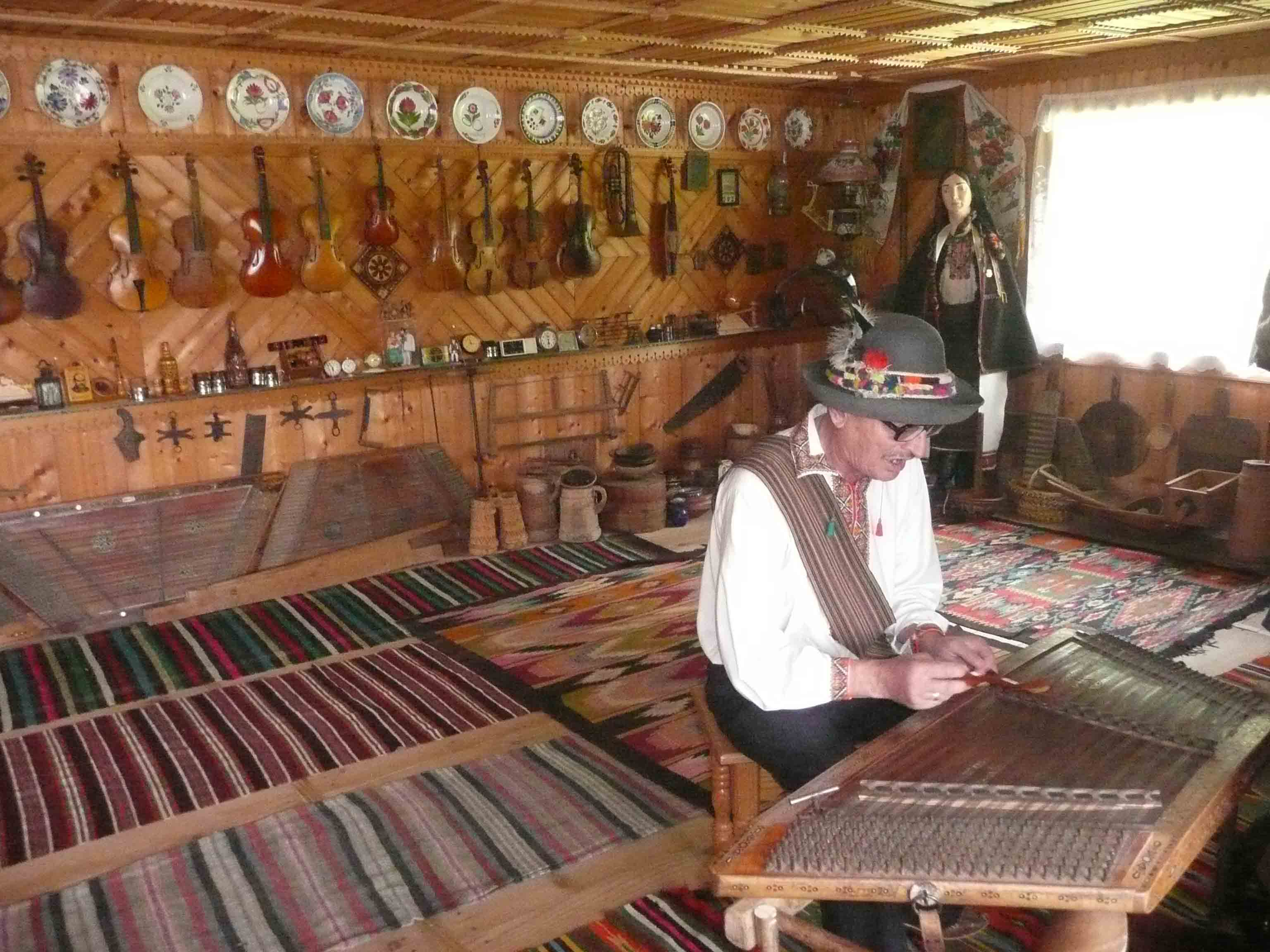 Roman Kumlyk the talented musician and owner of the museum of musical instruments and hutsuls lifestyle, playing cymbaly (Verkhovyna town, Western Ukraine) More about Roman Kumlyk and his unique museum